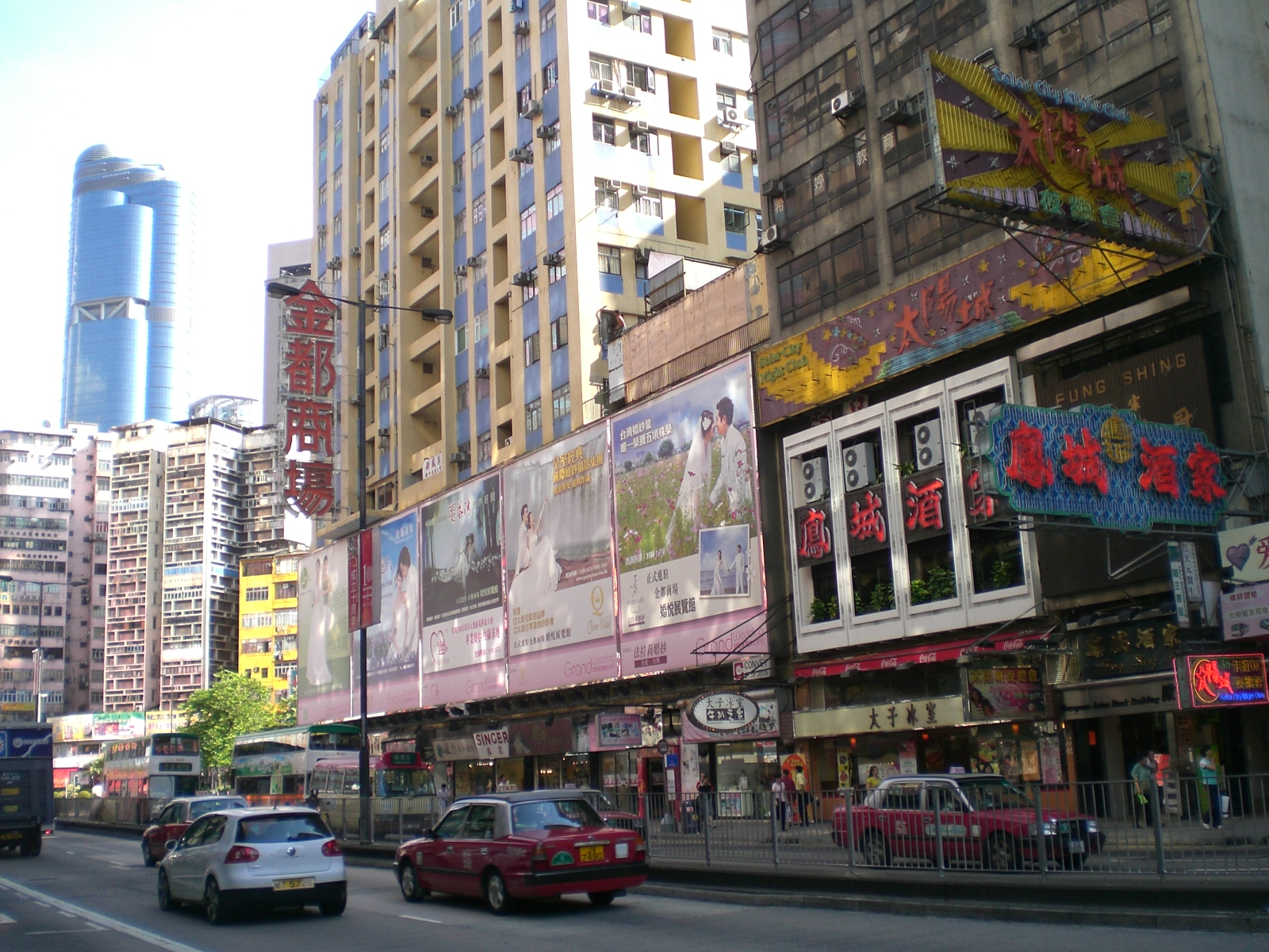 Yau Tsim Mong District, Kowloon 九龍油尖旺區